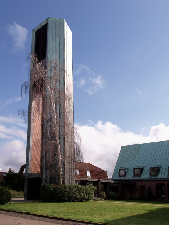 Elmshorn (Slesvic-Holstein, Germany), church "Lutherkiche" (ev.luth.), photo 2008